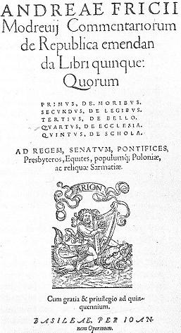 The first page of De republica emendanda by Andrzej Frycz Modrzewski (Basel, 1554)